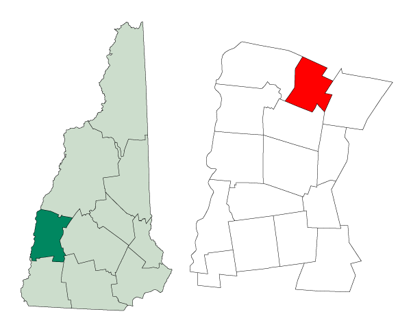 Map of a municipality in Sullivan County, New Hampshire